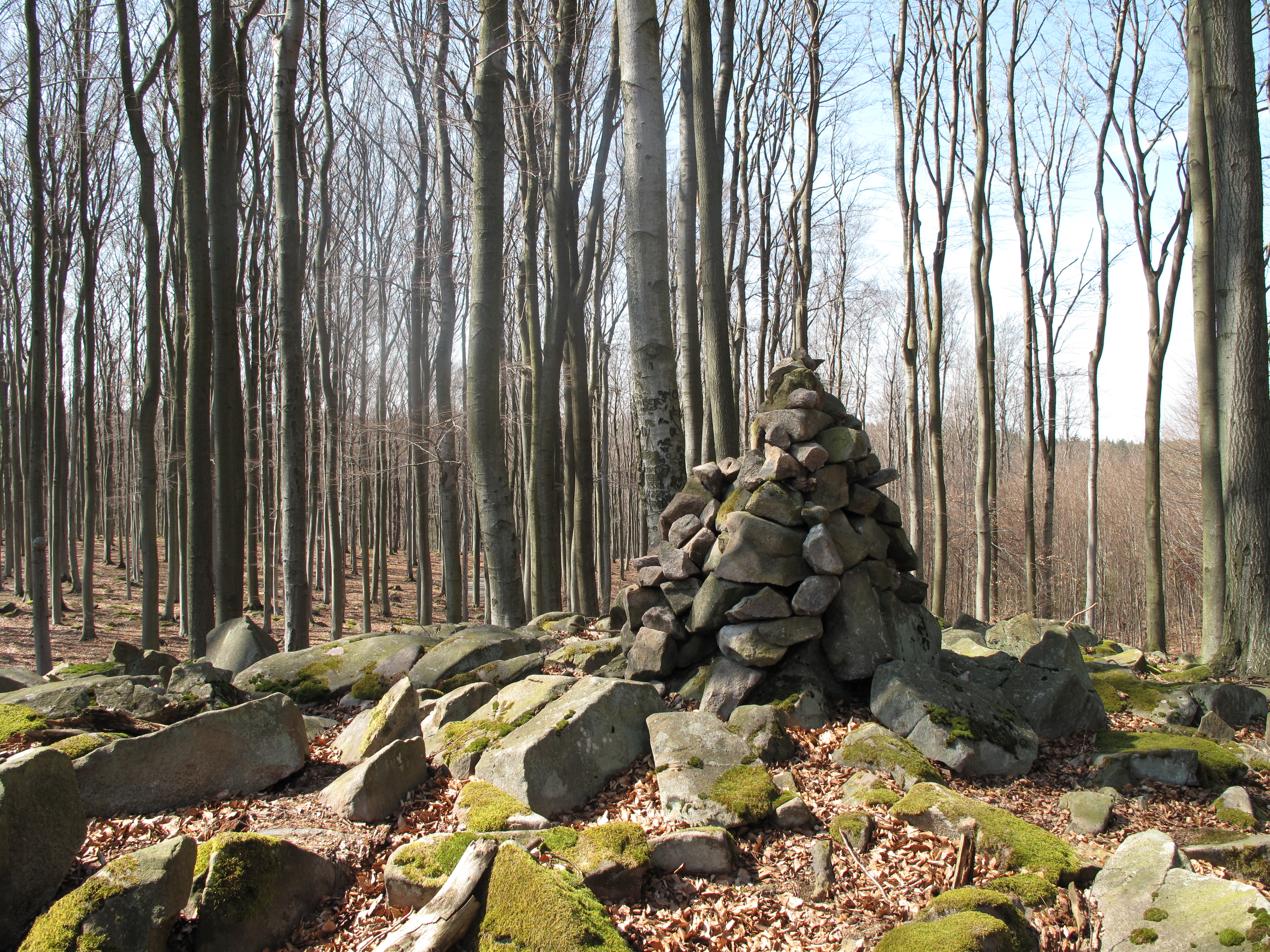 Voděrady Beechwood by spring. Prague-East District, Czech Republic. This photograph was taken within the scope of the 'Czech Municipalities Photographs' grant.